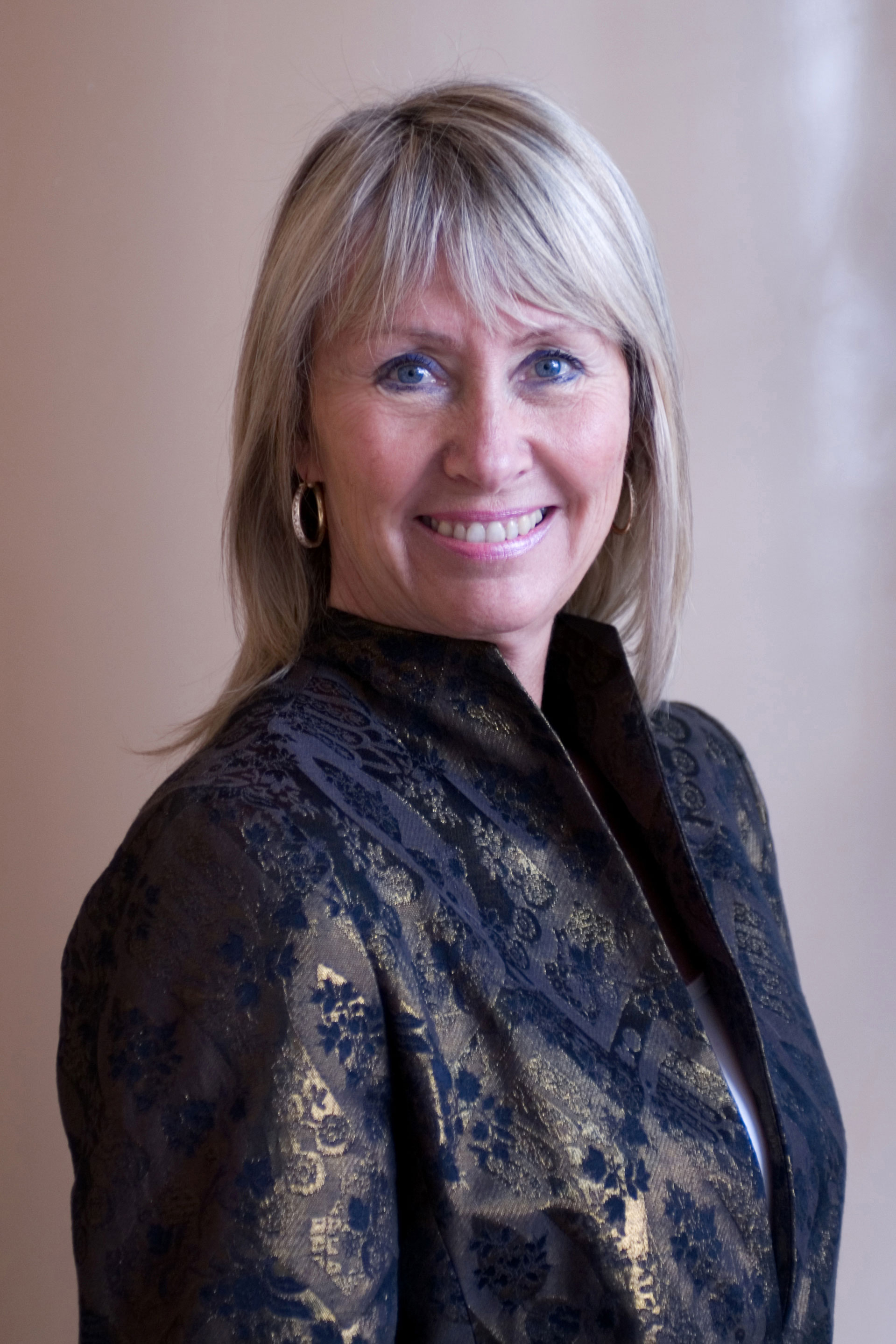 Ginny Hasselfield, leader of the Manitoba Liberal Party between 1996 and 1998. Photo by Chuck Szmurlo taken in Vancouver on March 13,2008 with a Nikon D200 and a Nikon 28-70 f2.8 lens.